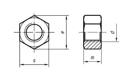 DIN 934 Hexagon Nut technical drawing